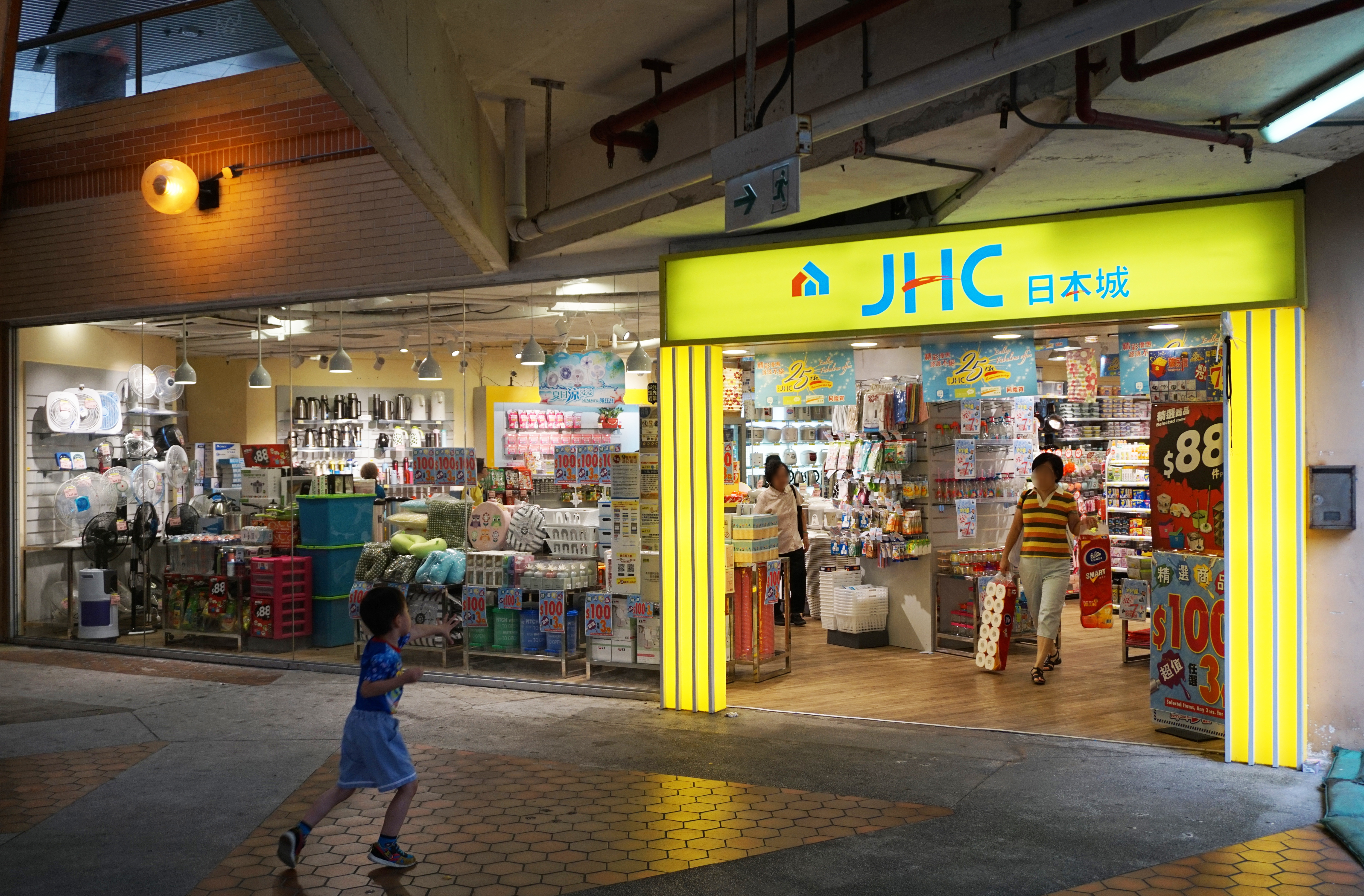 Lei Tung Commercial Centre in Ap Lei Chau, Hong Kong.